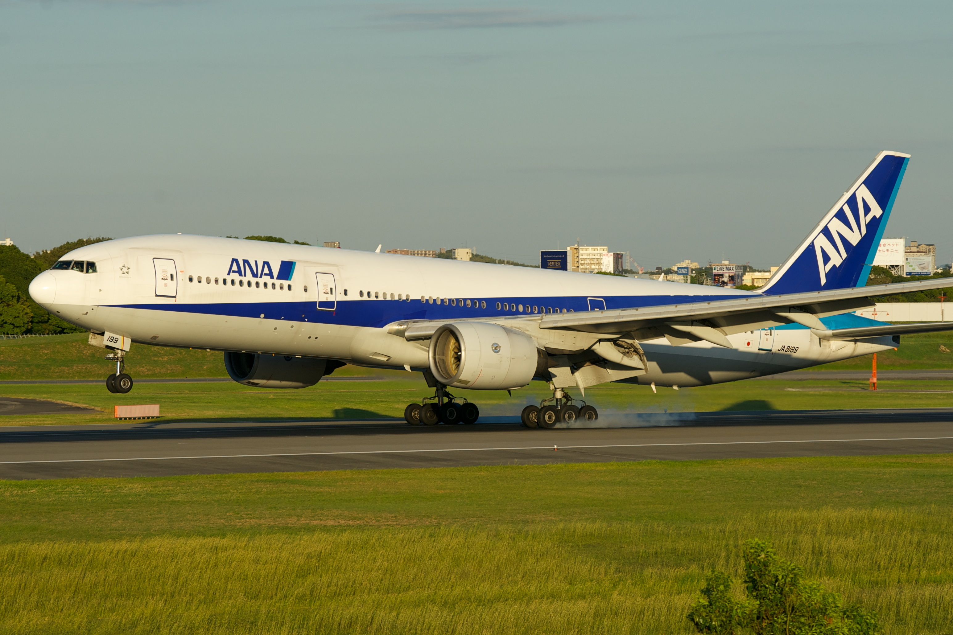 Itami! ANA 777 plants it at Osaka International Airport (ITM)